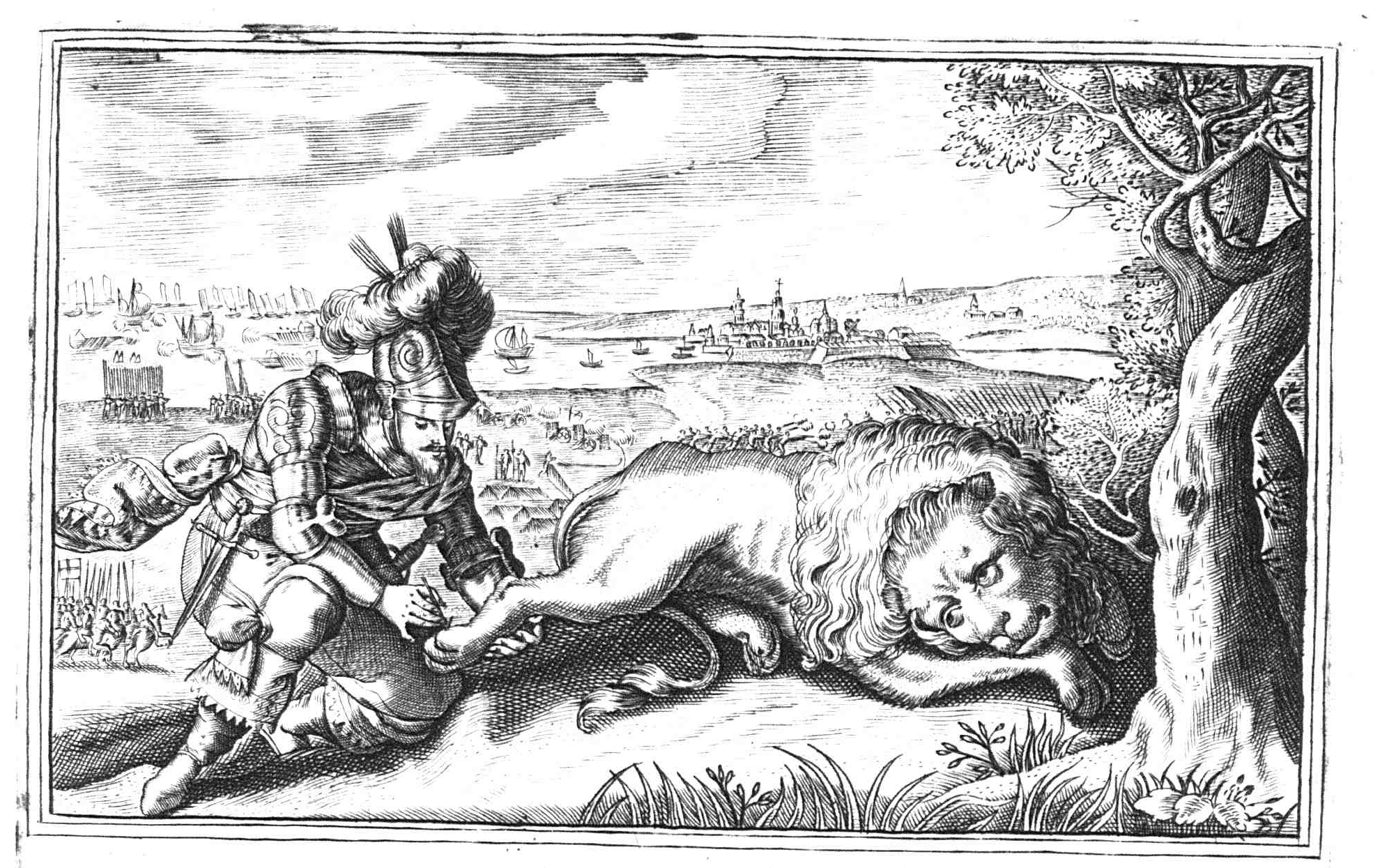 detail from Image:Carmen Augurale Ad Ambrosium Spinolam.jpg